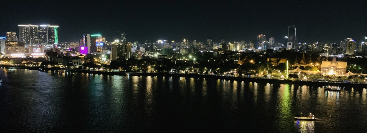 Phnom Penh city viewed from the east.